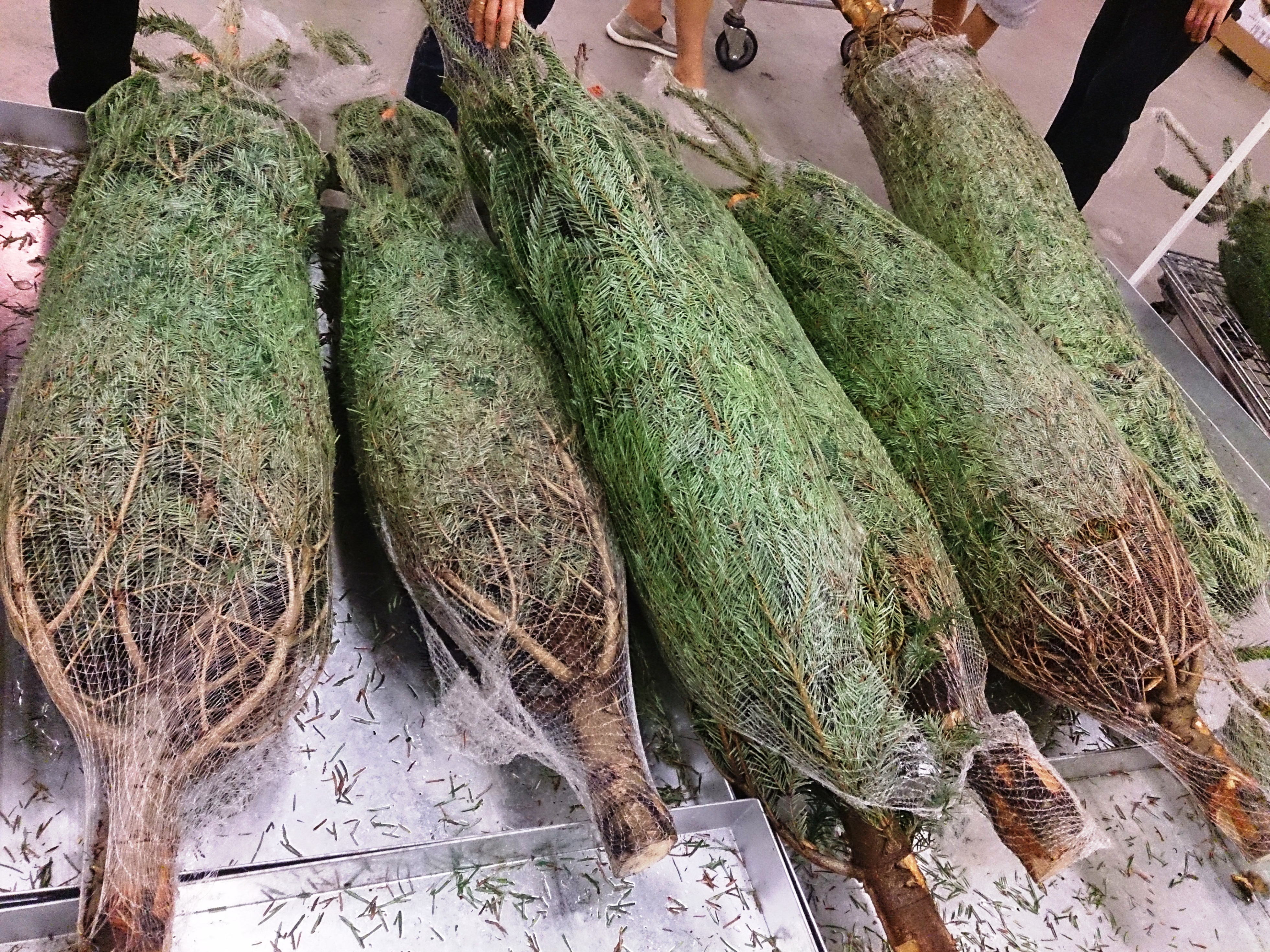 at Ikea Singapore (Dec 2013)